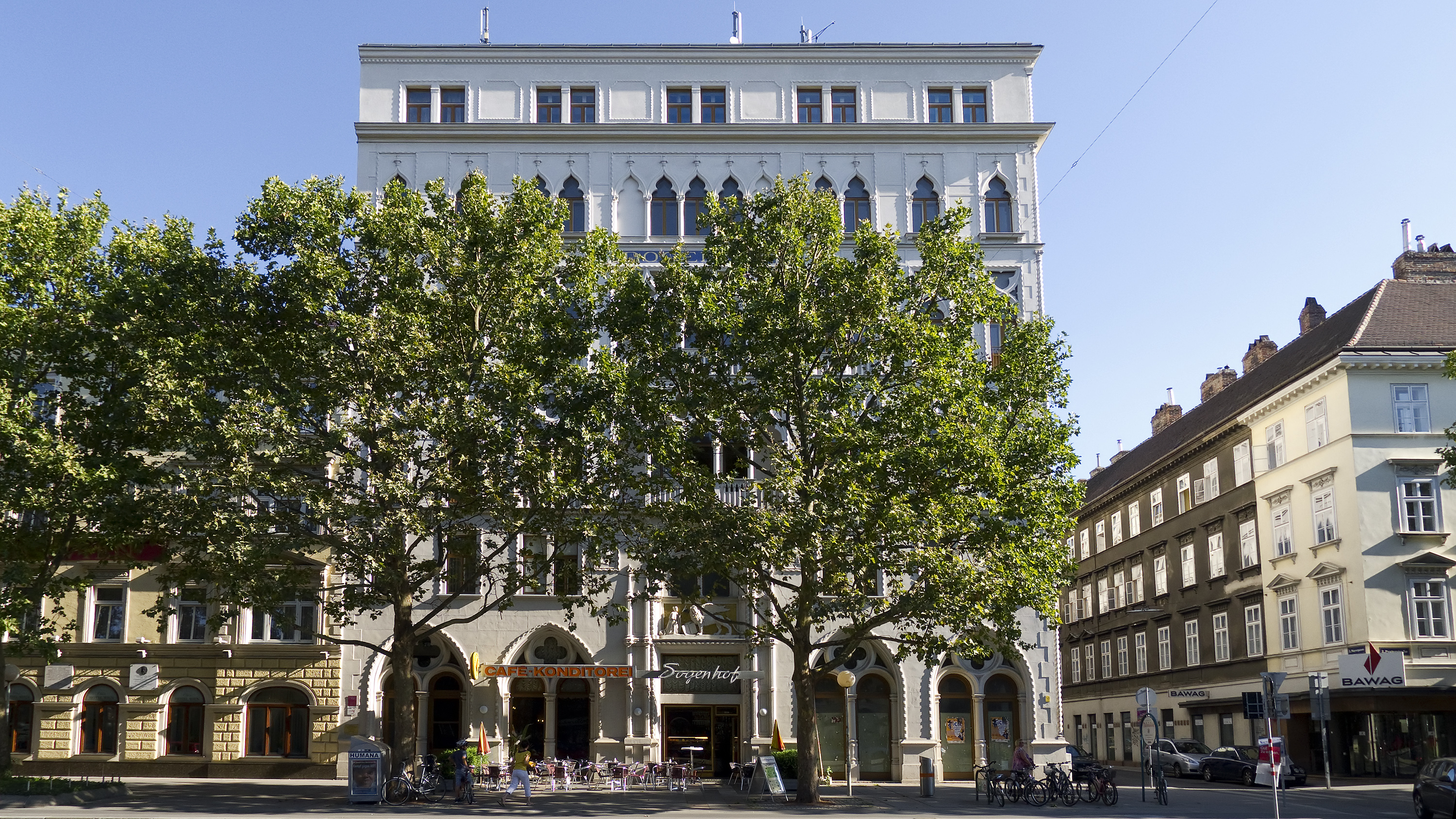 Residential building Praterstraße 70, Vienna (Dogenhof)